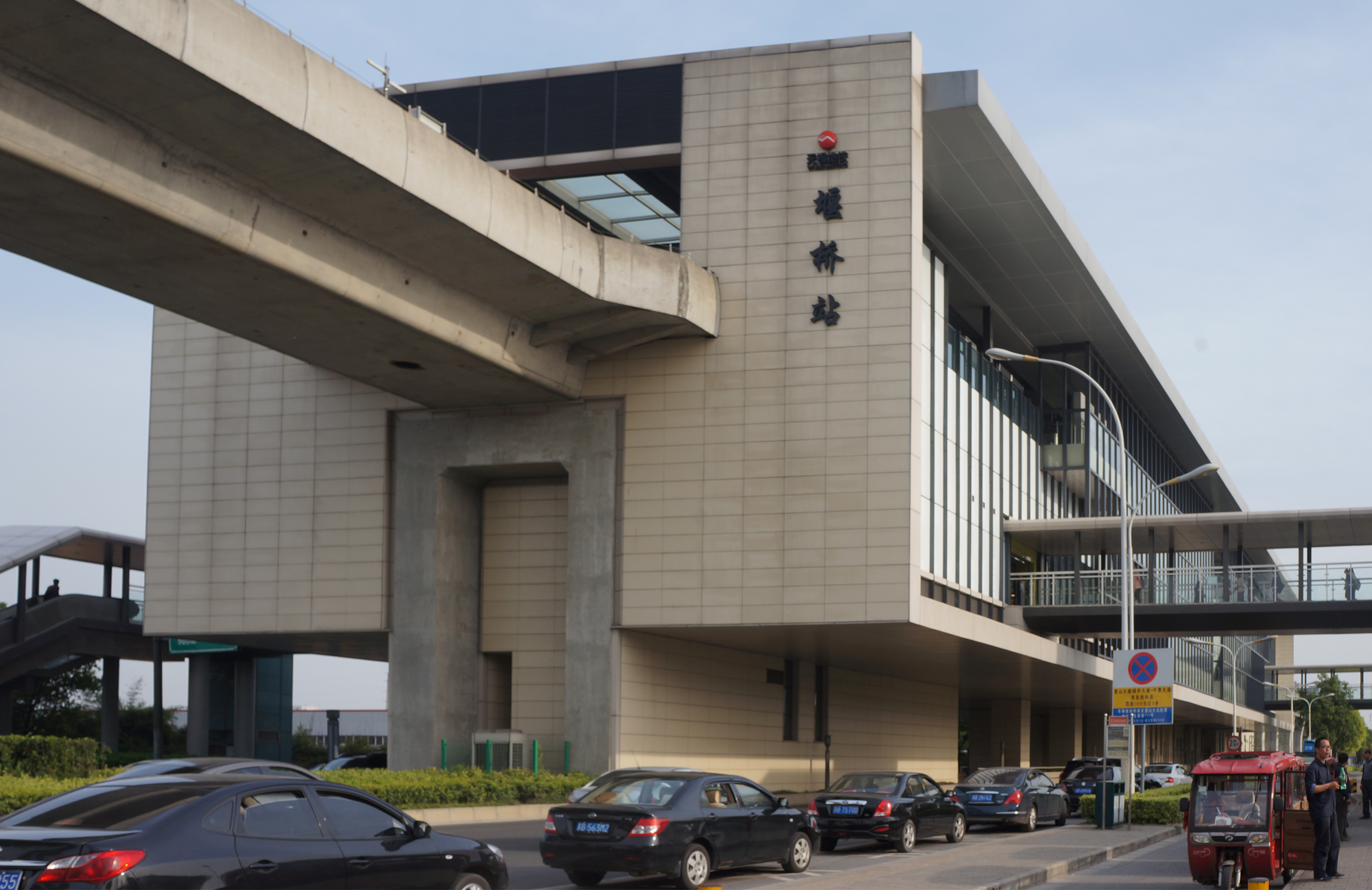 201704 Yanqiao Station